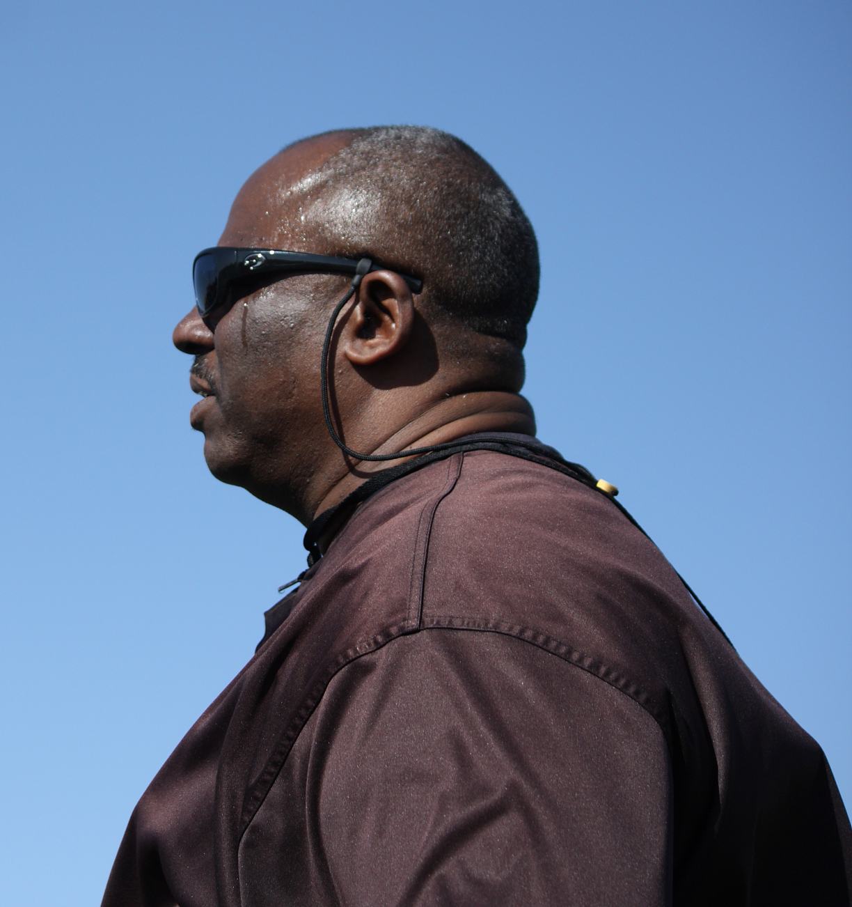 Ruffin McNeill, defensive coordinator and interim head coach of the Texas Tech Red Raiders football team.